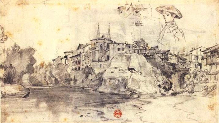 Drawing of Casèras (Occitania)